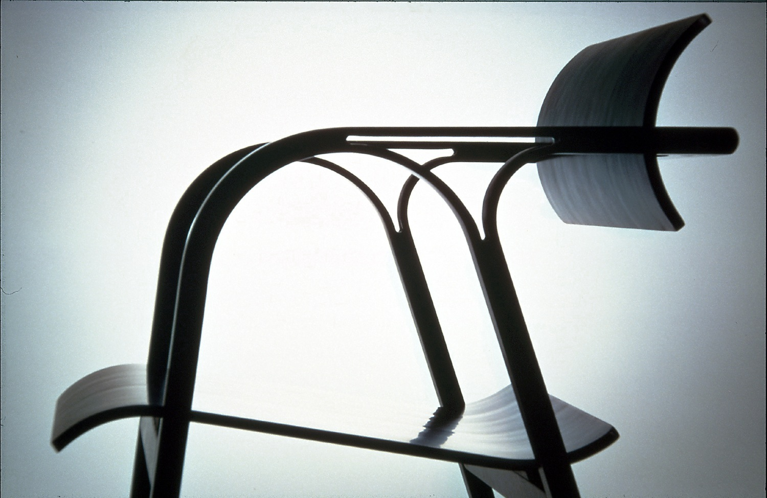 Works of KAWAKAMI Motomi 005-1985